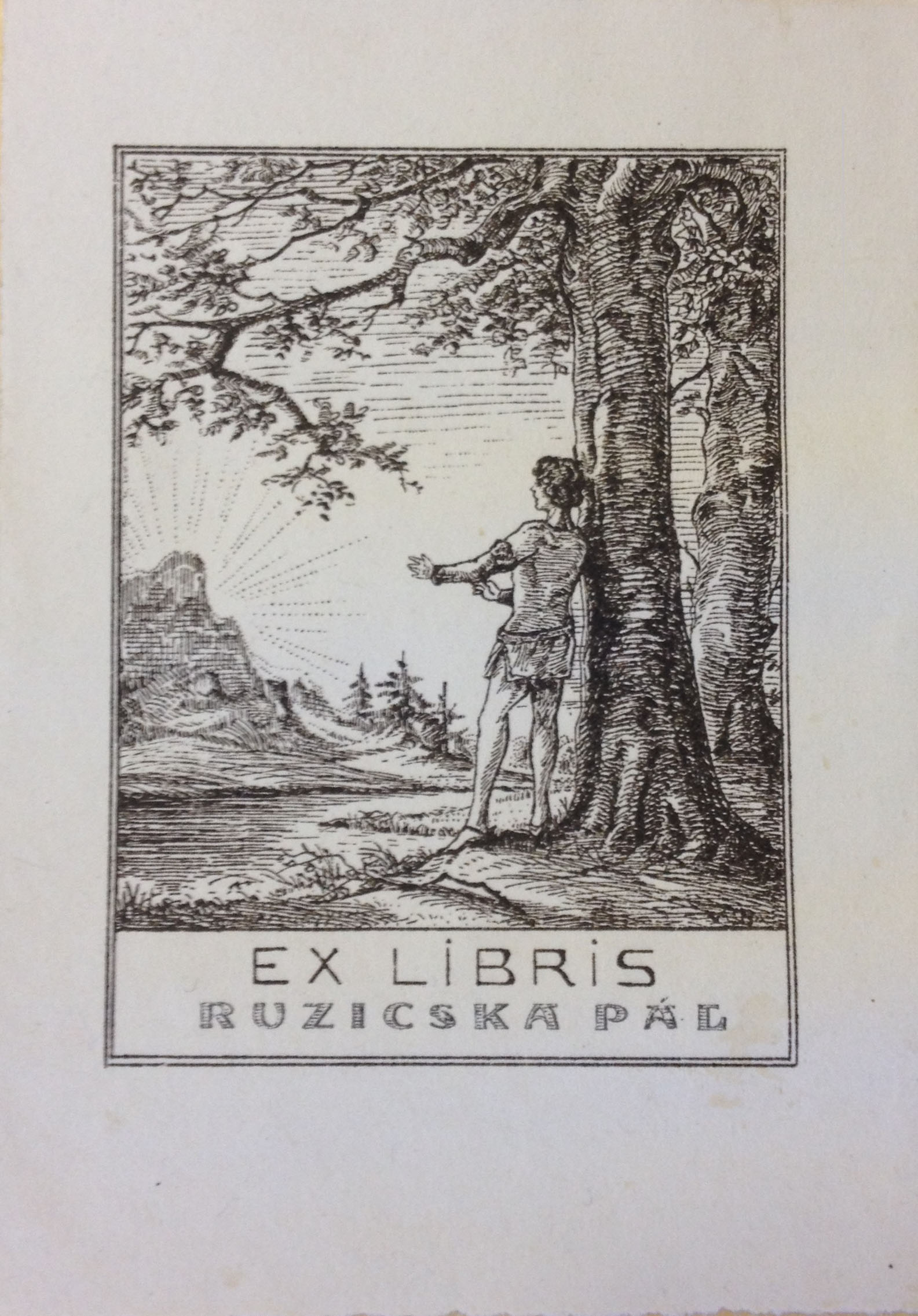 Pal Ruzicska bookplate